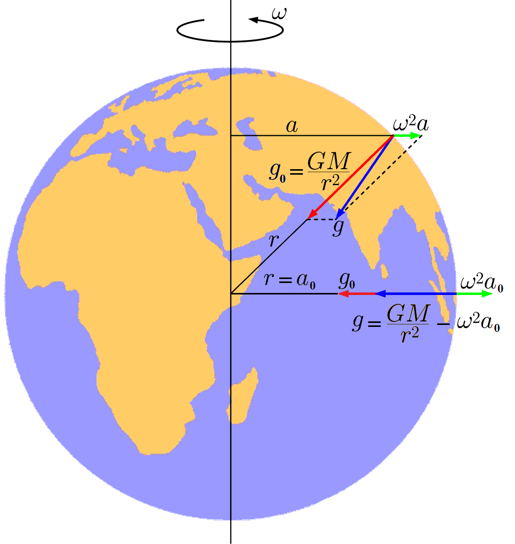 The figure illustrates the contributions of gravitational and centrifugal forces on the acceleration due to gravity on earth (the vectors are not in proportion). M denotes the mass of Earth, G is the gravitational constant.